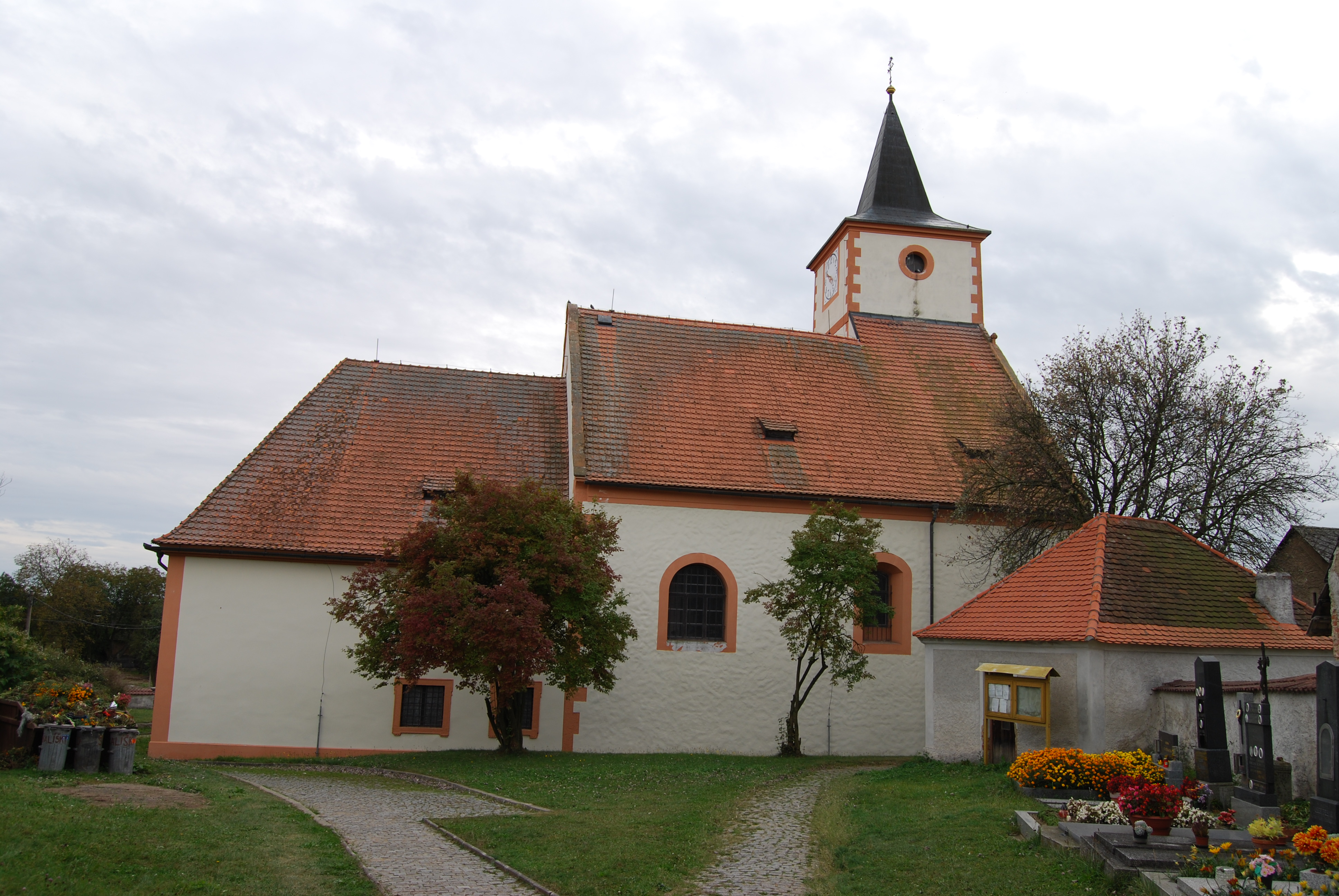 Kasejovice town in Plzeň-jih District. Czech Republic. Church of Saint Jakub